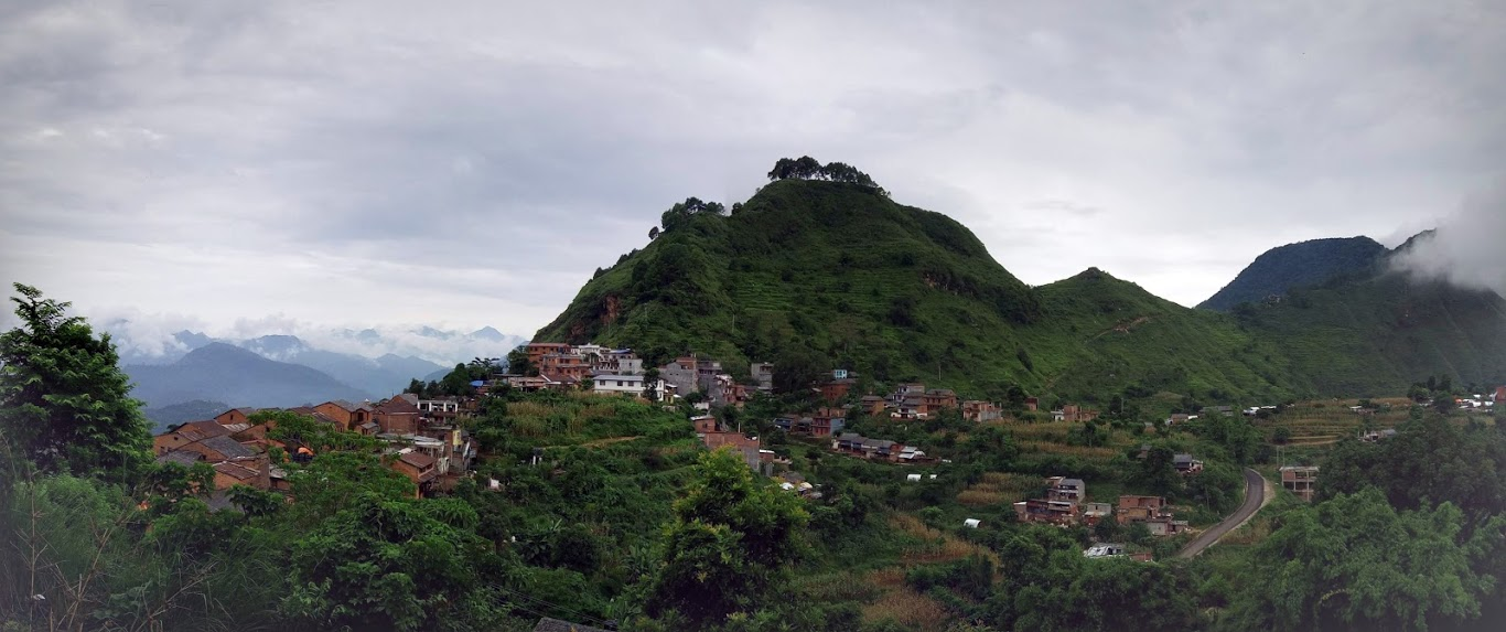 Bandipur heights as seen from the Bandipur municipality office at early morning